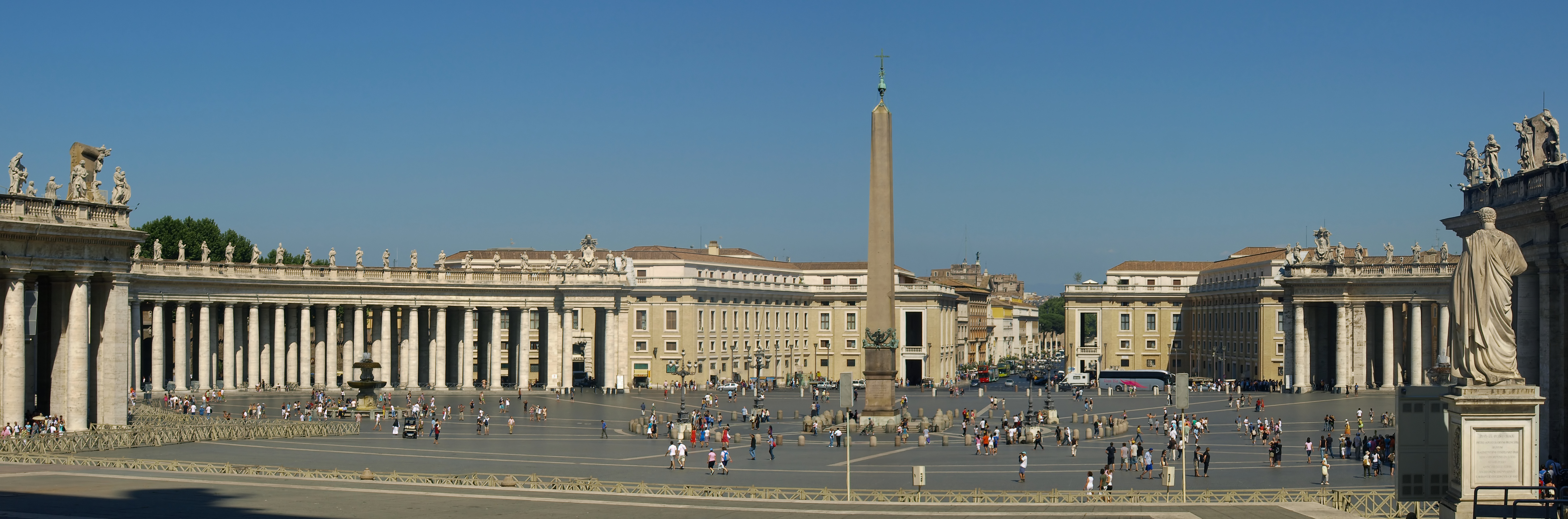 Panorama of Saint Peter's Square, Vatican City with the two symetrical Palazzi detto dei Propilei in the background.